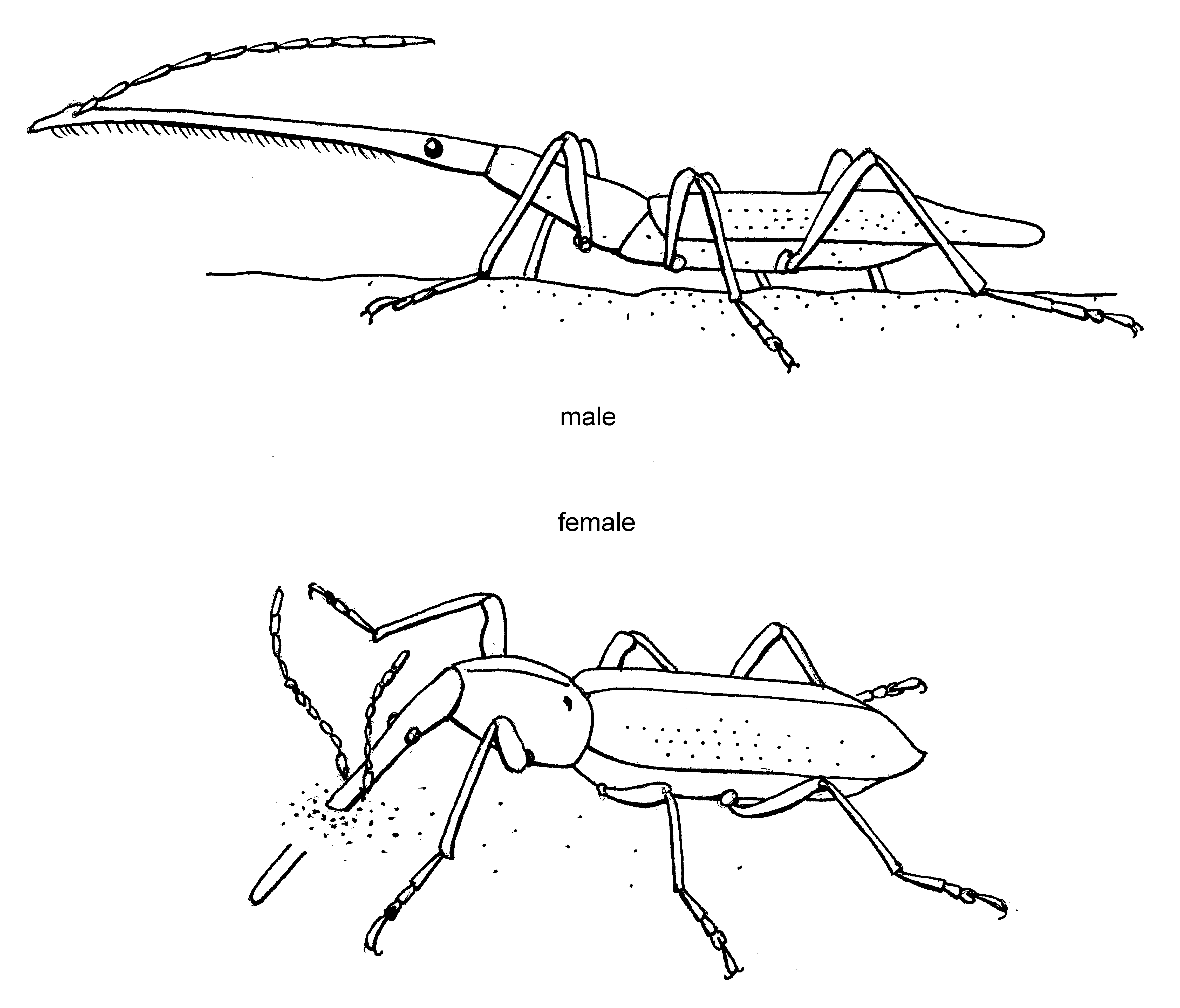 (Coleoptera: Brentidae) Lasiorhynchus barbicornis, the New Zealand giraffe weevil female and male, illustrated by Des Helmore to show how the antenna positioning is determined by the female's need to bore into wood.